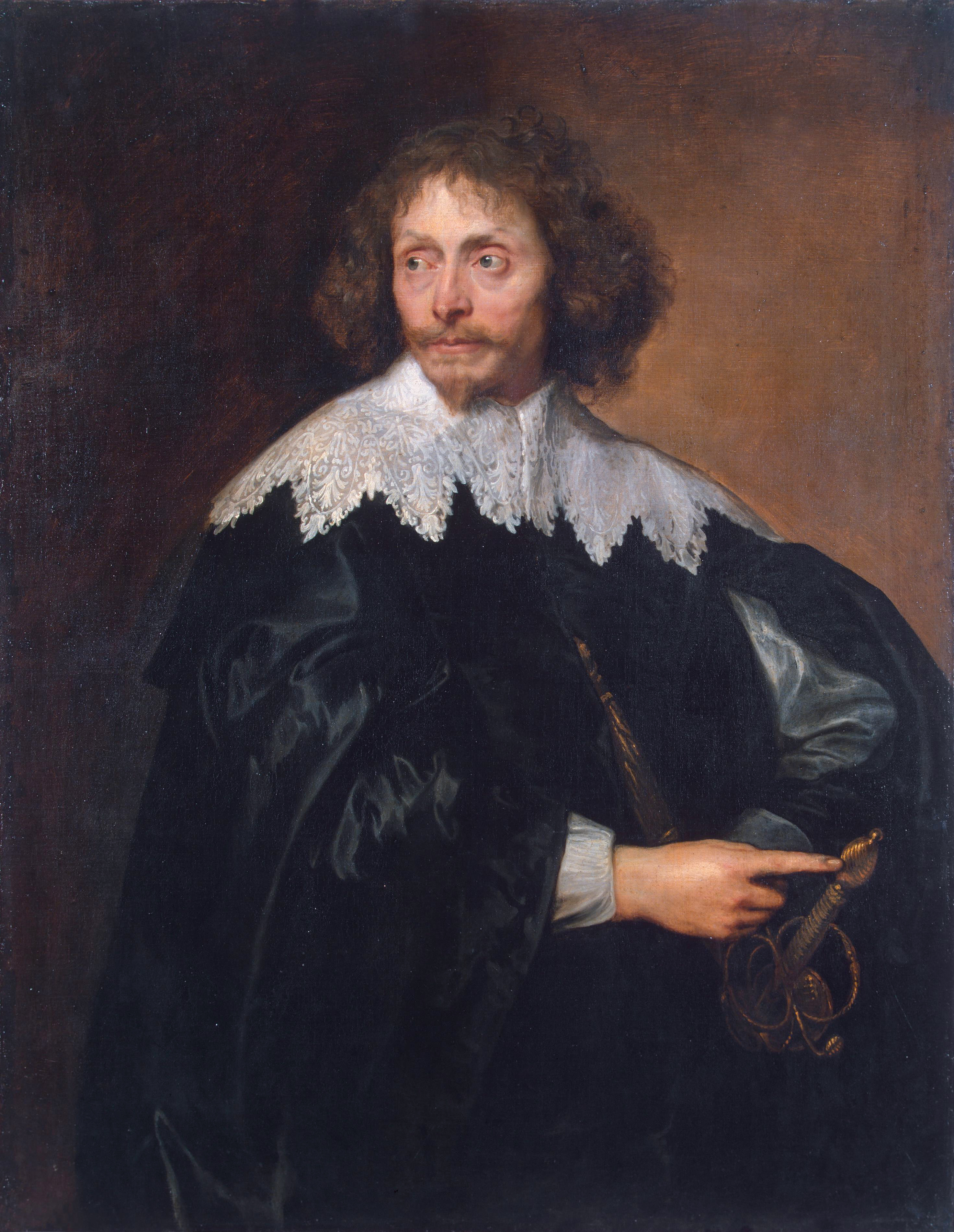 Portrait of Thomas Chaloner (1595 – 1661), regicide